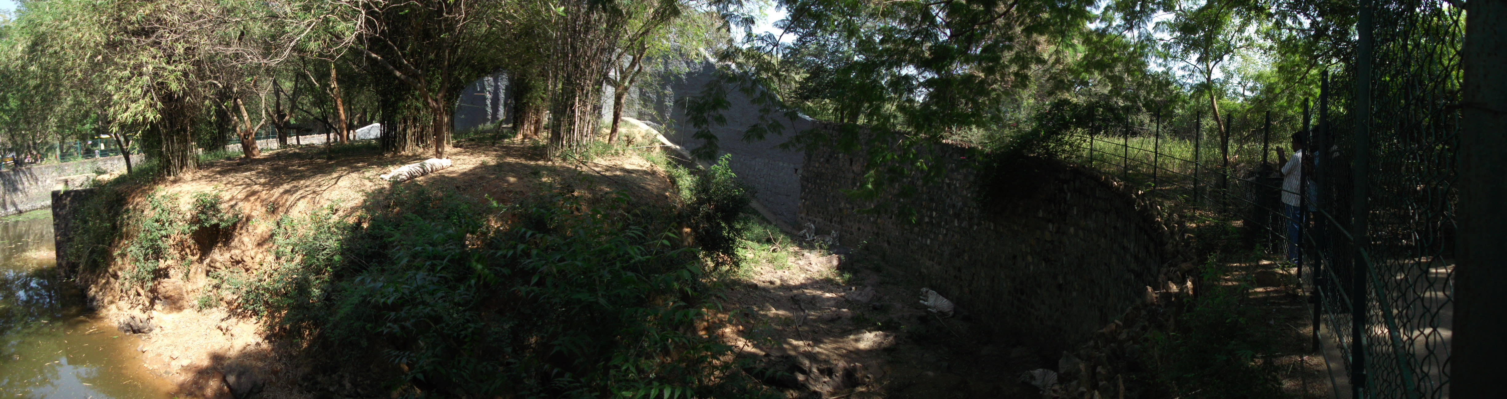 There are 7 Bengal Tigers in the zoo